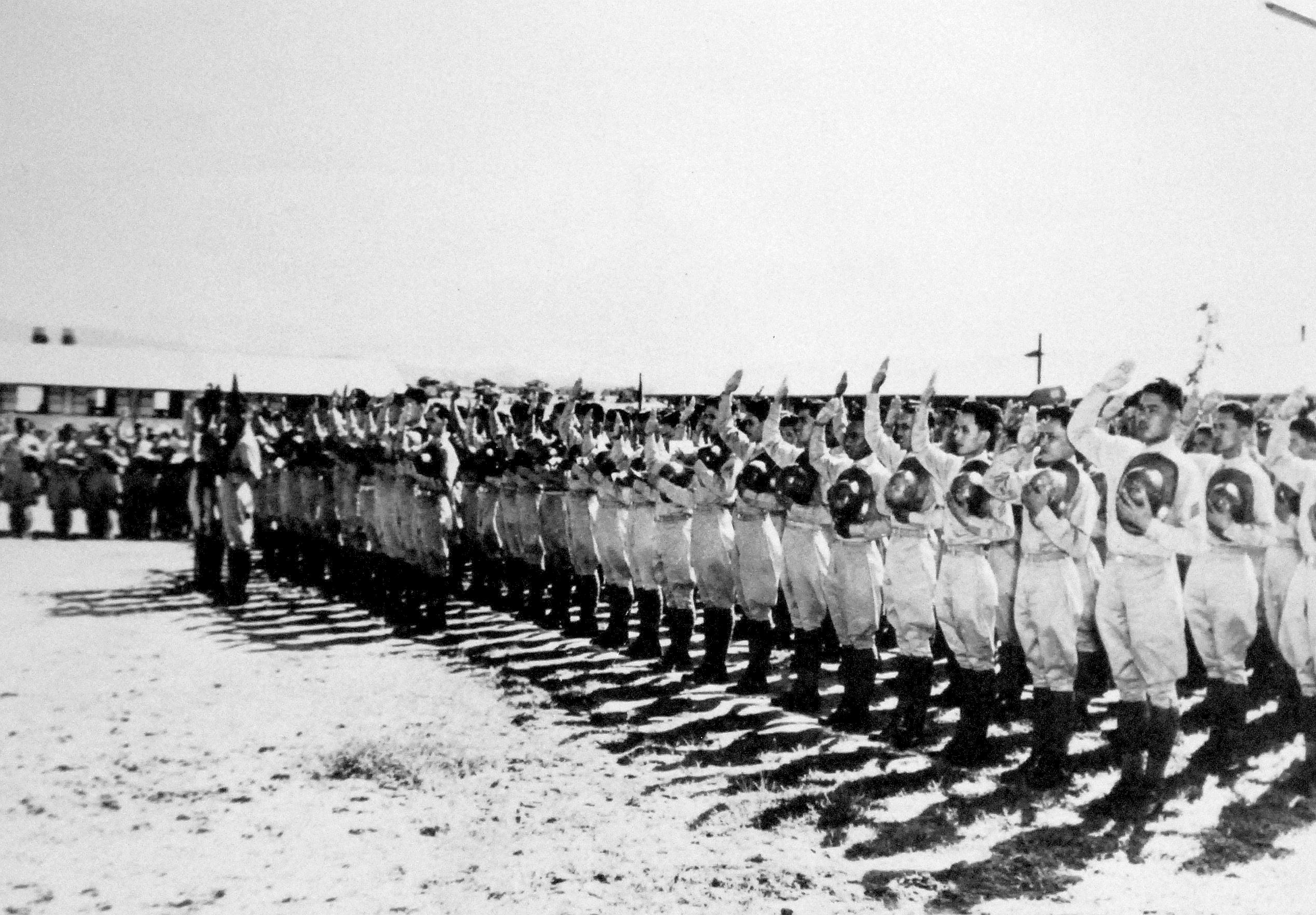 Filipinos Pledge Allegiance to the U.S. In unbroken fighting spirit, the troops of the First Regiment, the Philippine Constabulary, swear allegiance to the U.S. Flag and to the cause of the United Nations. Office of War Information Collection, Feb-Mar 1942.